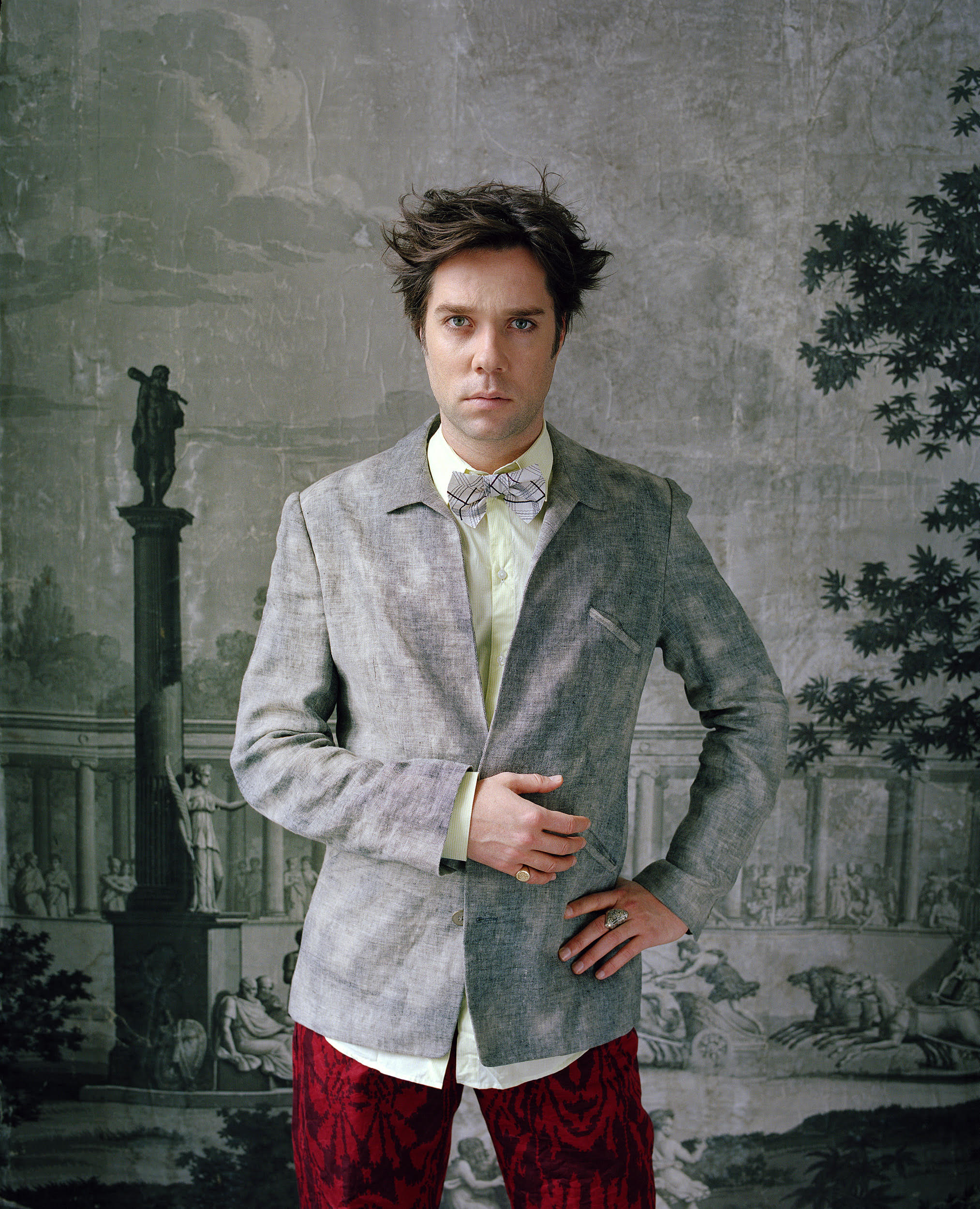 Rufus Wainwright portrayed by Oliver Mark, Berlin 2010